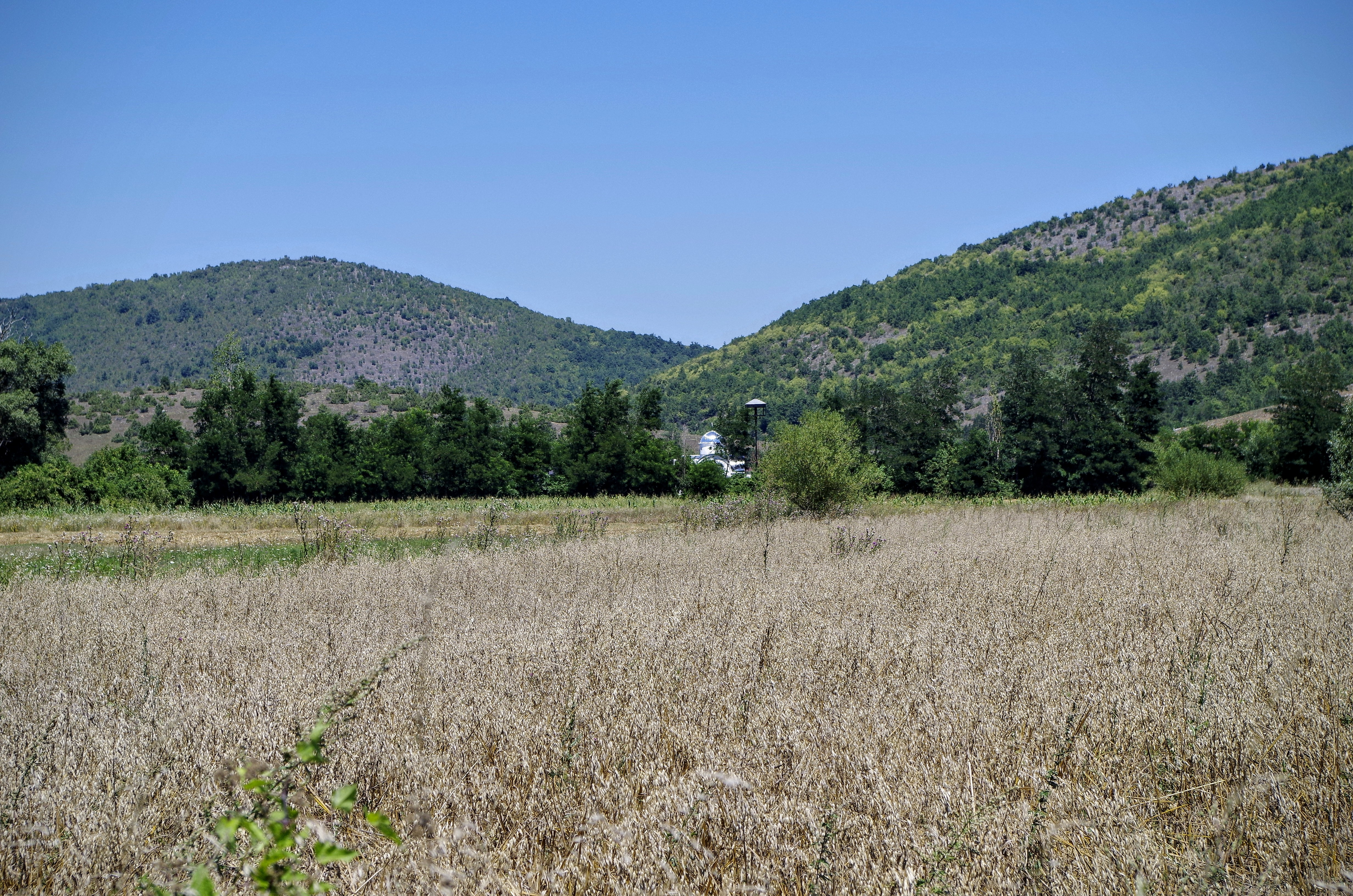 View of the St. Athanasius Church in the village Belčišta, Macedonia